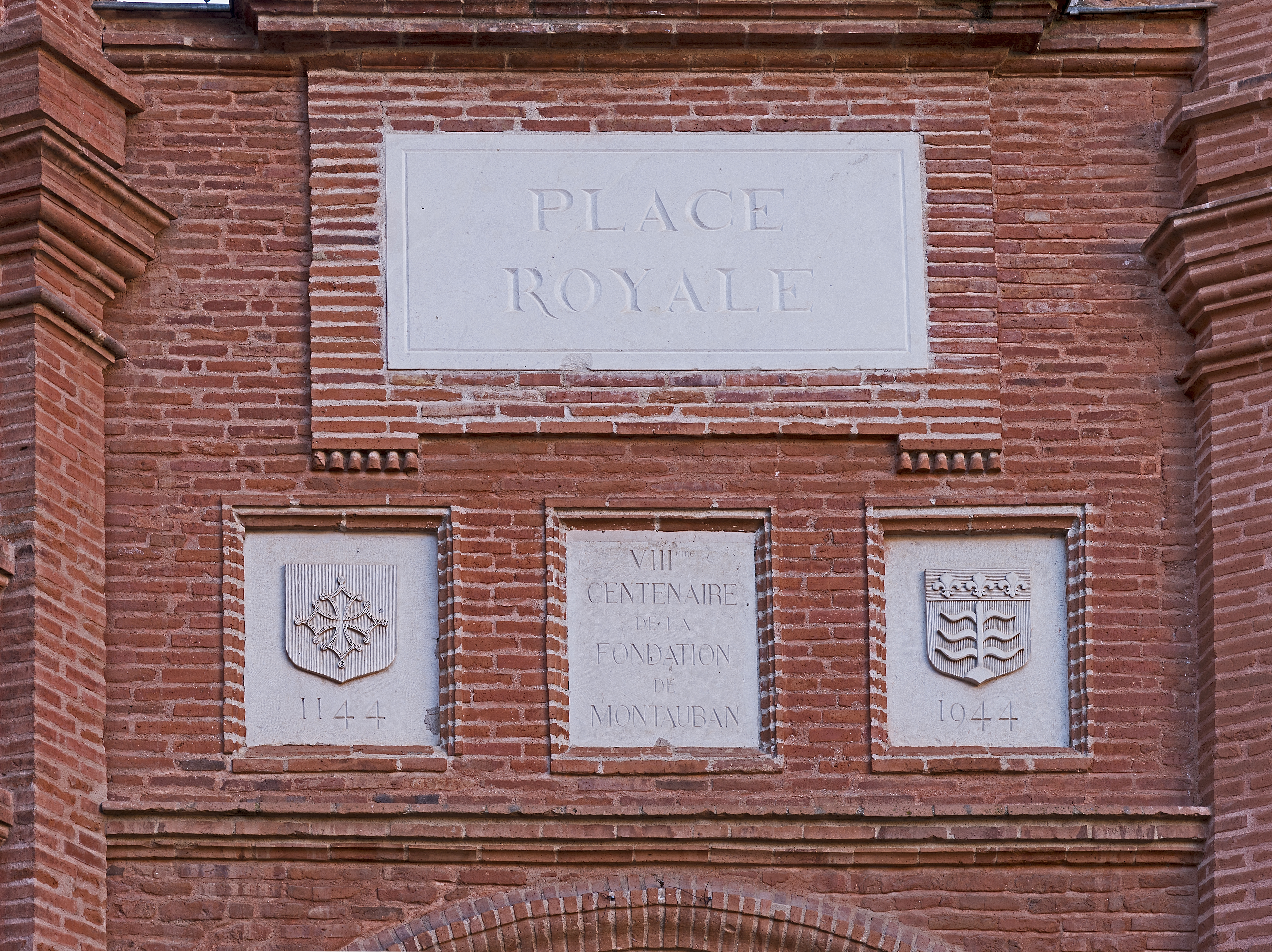 Place Nationale, Memorial Plaque, the 800th anniversary of the founding of Montauban, Tarn et Garonne, France.